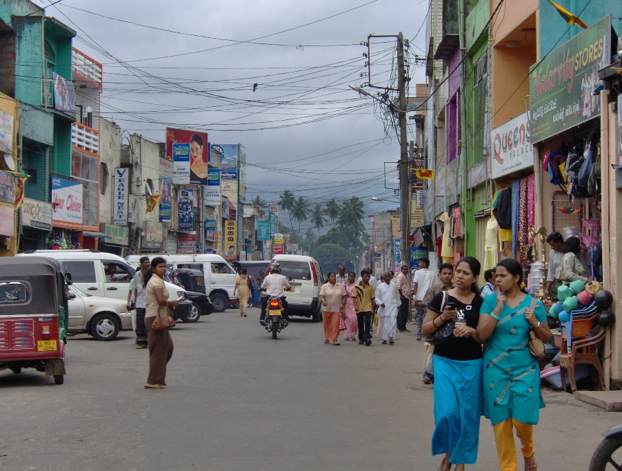 A street of Badulla, Sri Lanka